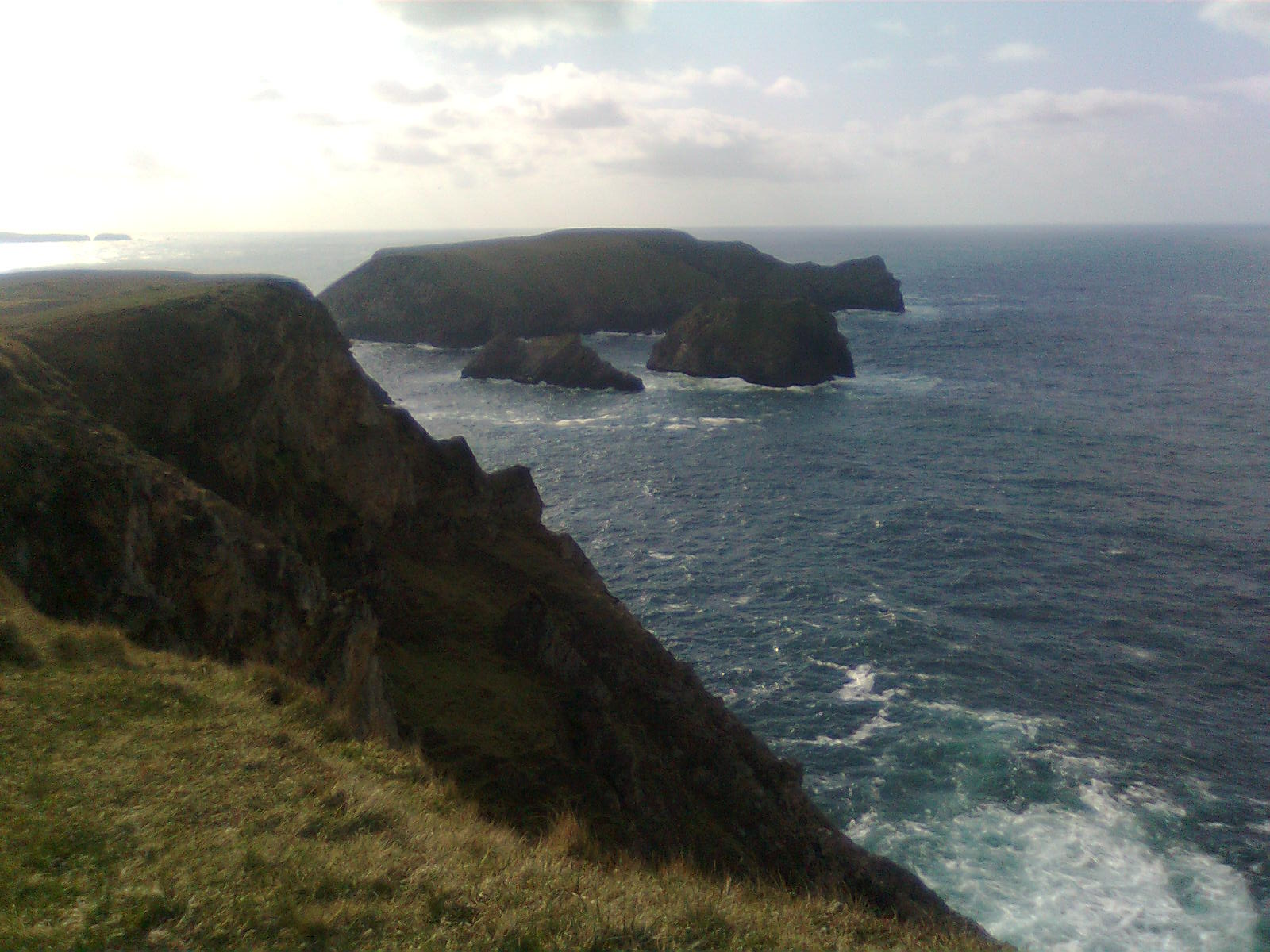 Kid_Island,_Kilcommon,_Erris,_North_Mayo..jpg